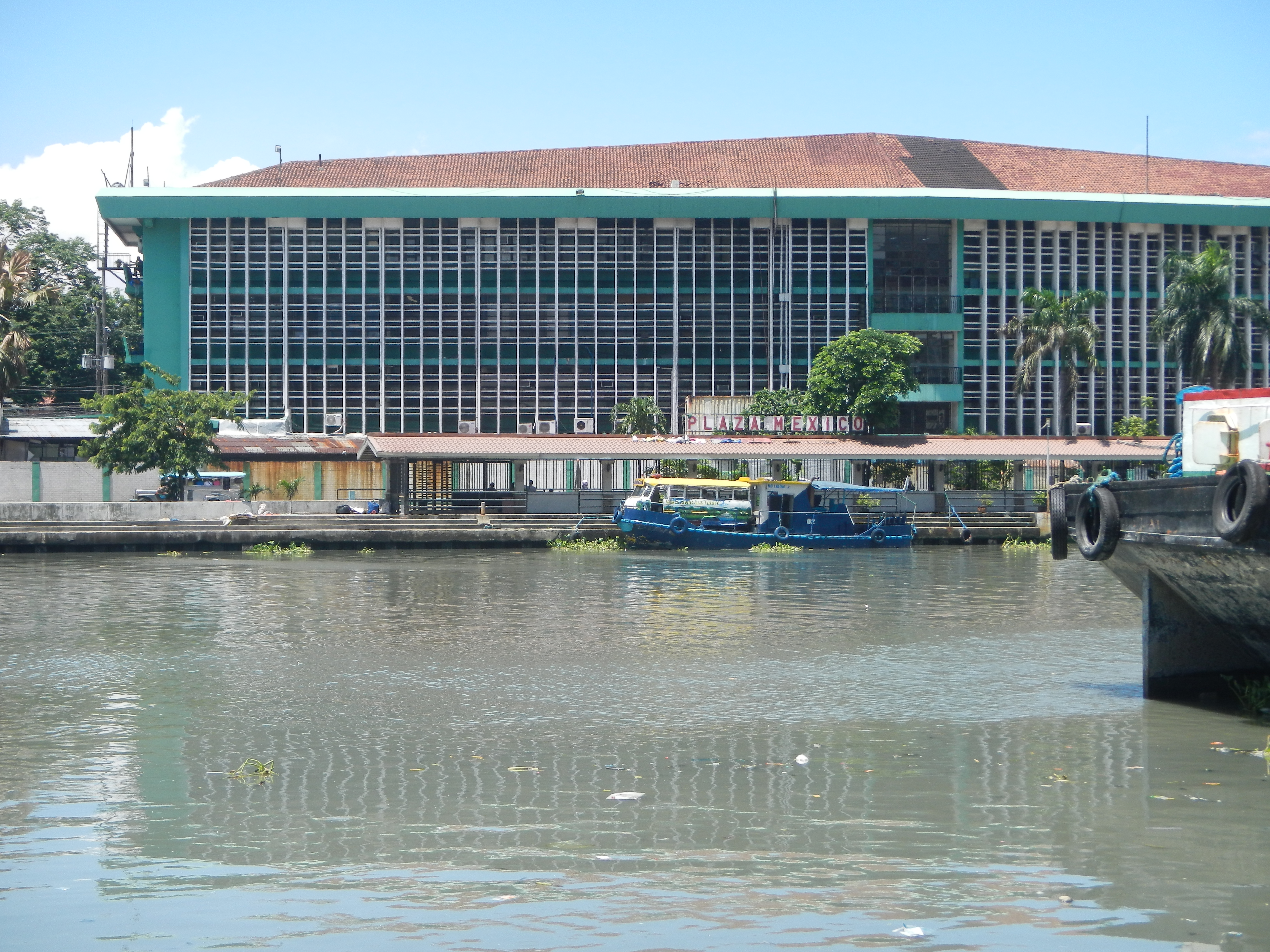 Muelle del Banco Nacional-Muelle de la Industria corner Juna Luna Street, List of Cultural Properties of Santa Cruz El Hogar Filipino Building on 117 Juan Luna Street corner Muelle dela Industria built in 1914 by Antonio Melian Pasig River, Muelle del Banco Nacional-Muelle de la Industria, Santa, Cruz-Jones & Del Pan Bridges, Santa Cruz-Binondo-Tondo, Manila section) Puente Colgante (Manila), along Pasig River List of crossings of the Pasig River in front of Plaza de Mexico (Manila) (3rd LD, Esteros in Binondo-Santa, Cruz, Manila in the List of rivers and estuaries in Metro Manila, Binondo, Manila, Tondo, Manila in Legislative districts of Manila 3rd District, Barangays 281, 282 and 287, District IIII, Binondo, Manila, City of Manila; Landmarks include Escolta River Bus Ferry Station, Jones Bridge, Plaza Mexico, Escolta Pumping Station Binondo Pumping Station Metropolitan Manila Development Authority Flood Control Management Services Muelle de la Industria Bridge (Estero de Binondo) 15 metric Tons load limit Maynilad Water Services Pasig River Rehabilitation Commission 940 meters Linear Parks, November 25, 2015 Marker Rehabilitation and Development of Estero de Binondo Sta. 0+100 to 0+400 Left bank, RMMW-EDBIN-11 P 9.761 million; Note: Judge Florentino Floro, the owner, to repeat, Donor Florentino Floro of all these photos hereby donate gratuitously, freely and unconditionally all these photos to and for Wikimedia Commons, exclusively, for public use of the public domain, and again without any condition whatsoever).